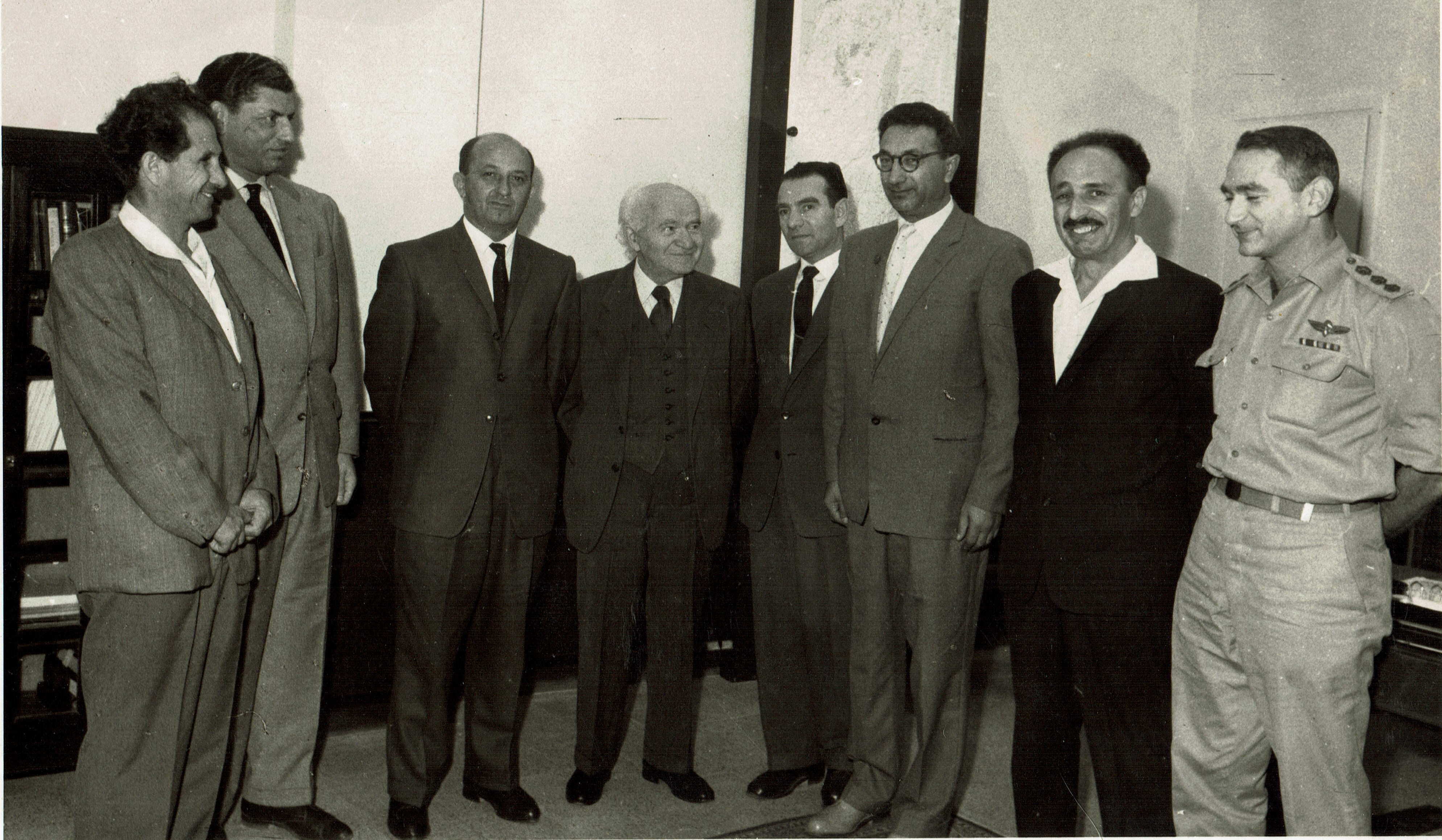 Invalid association members meeting with Ben Gurion to grant him the first volume of "Against the Nazi Enemy"